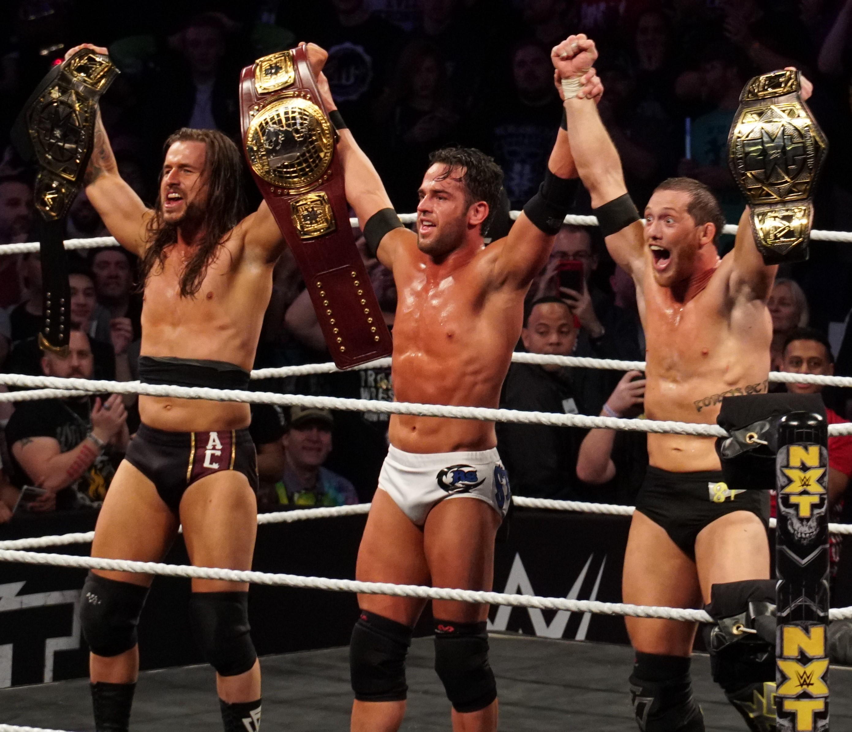 The Undisputed Era (Adam Cole, Roderick Strong, and Kyle O'Reilly) with the NXT North American Championship and the NXT Tag Team Championship at NXT TakeOver: New Orleans in April 2018.